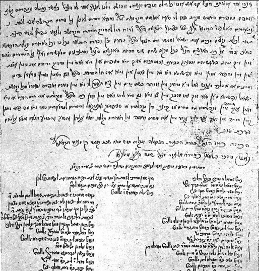 An anathema (Herem (censure)) placed upon the Hasidim by the Vilnius community, signed by the Vilna Gaon and other functionaries.